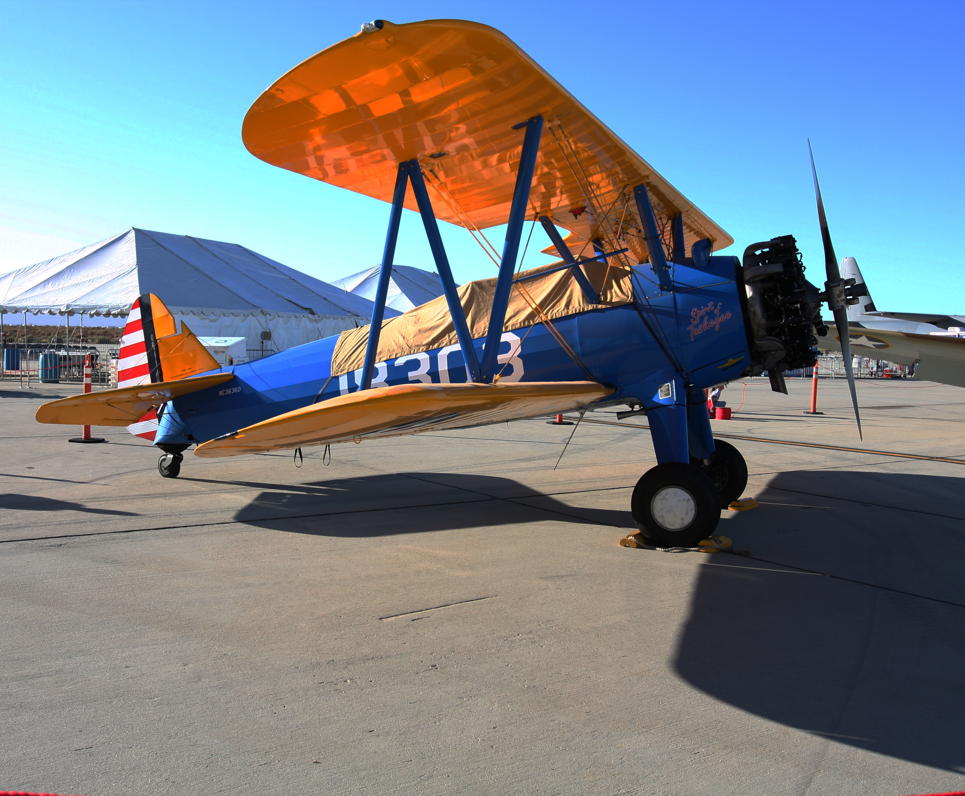 The Spirit of Tuskegee is a Boeing Stearman, which was used to train African American pilots at Tuskegee Institute during World War II (the "Tuskegee Airmen").